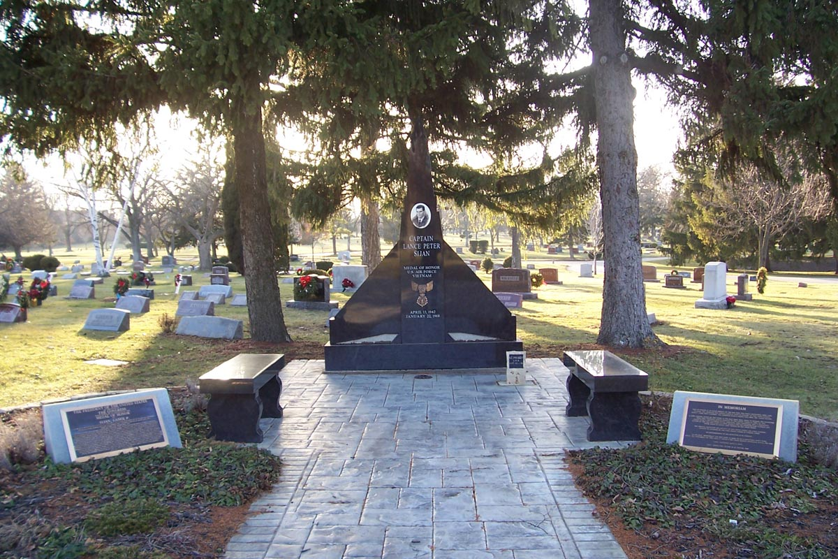 Gravesite memorial of Medal of Honor recipient Lance P. Sijan in Arlington Park Cemetery in Milwaukee, Wisconsin.